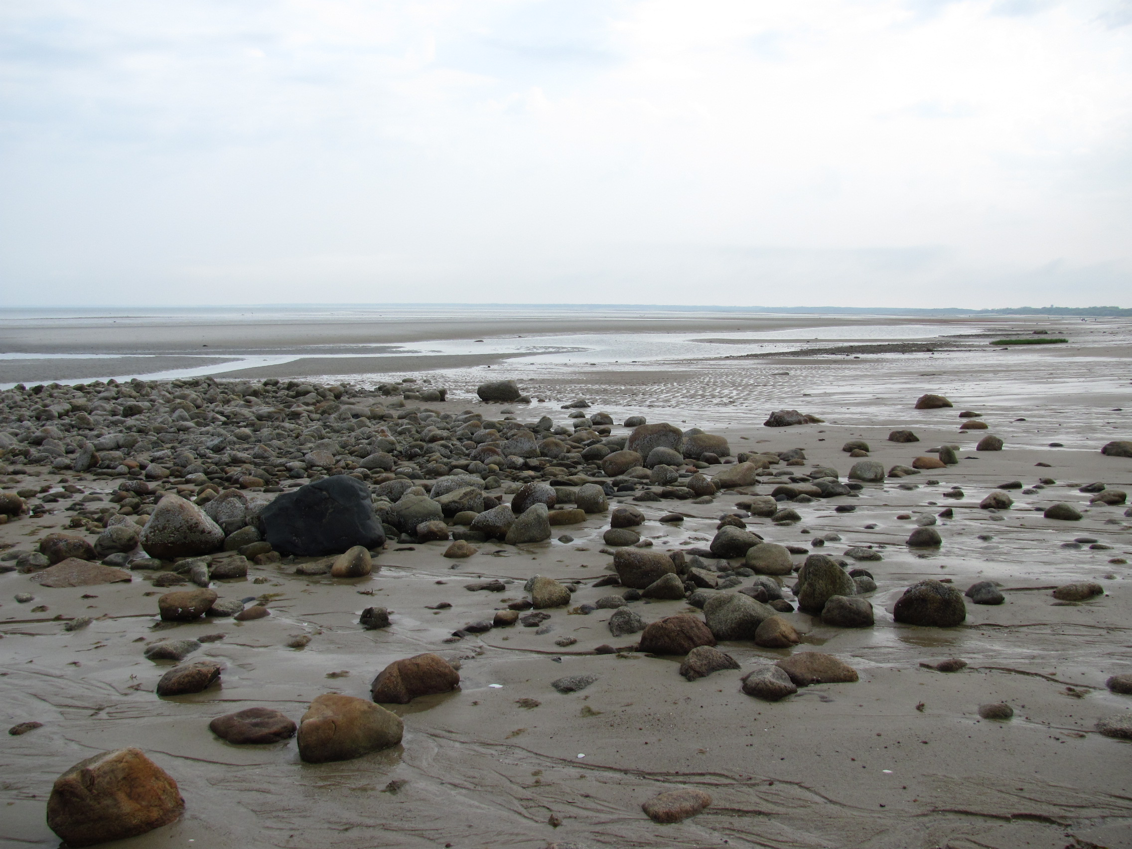 Cape Cod Sea Camps Beach, East Brewster Massachusetts